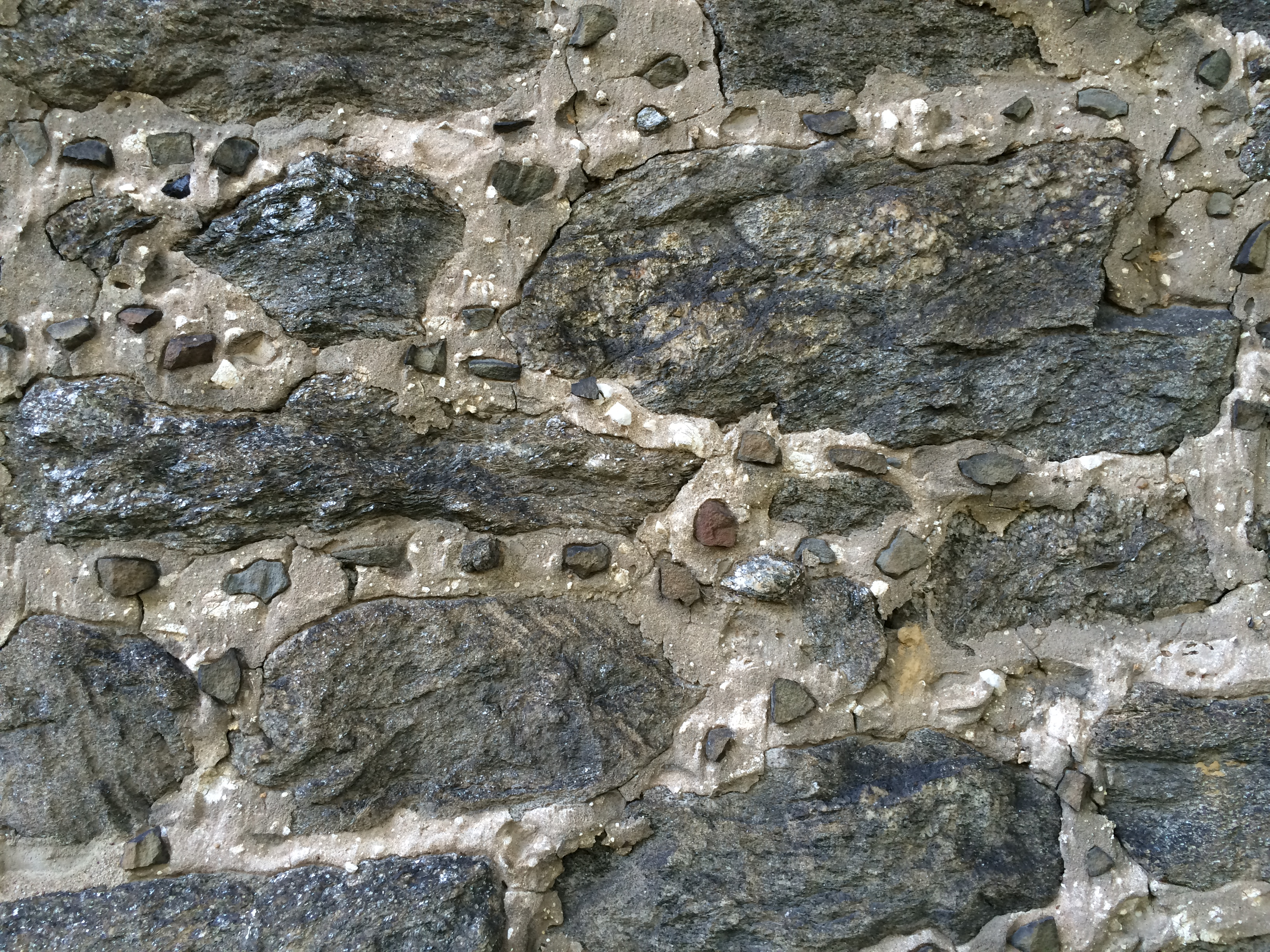 Galleting at north facade, detail